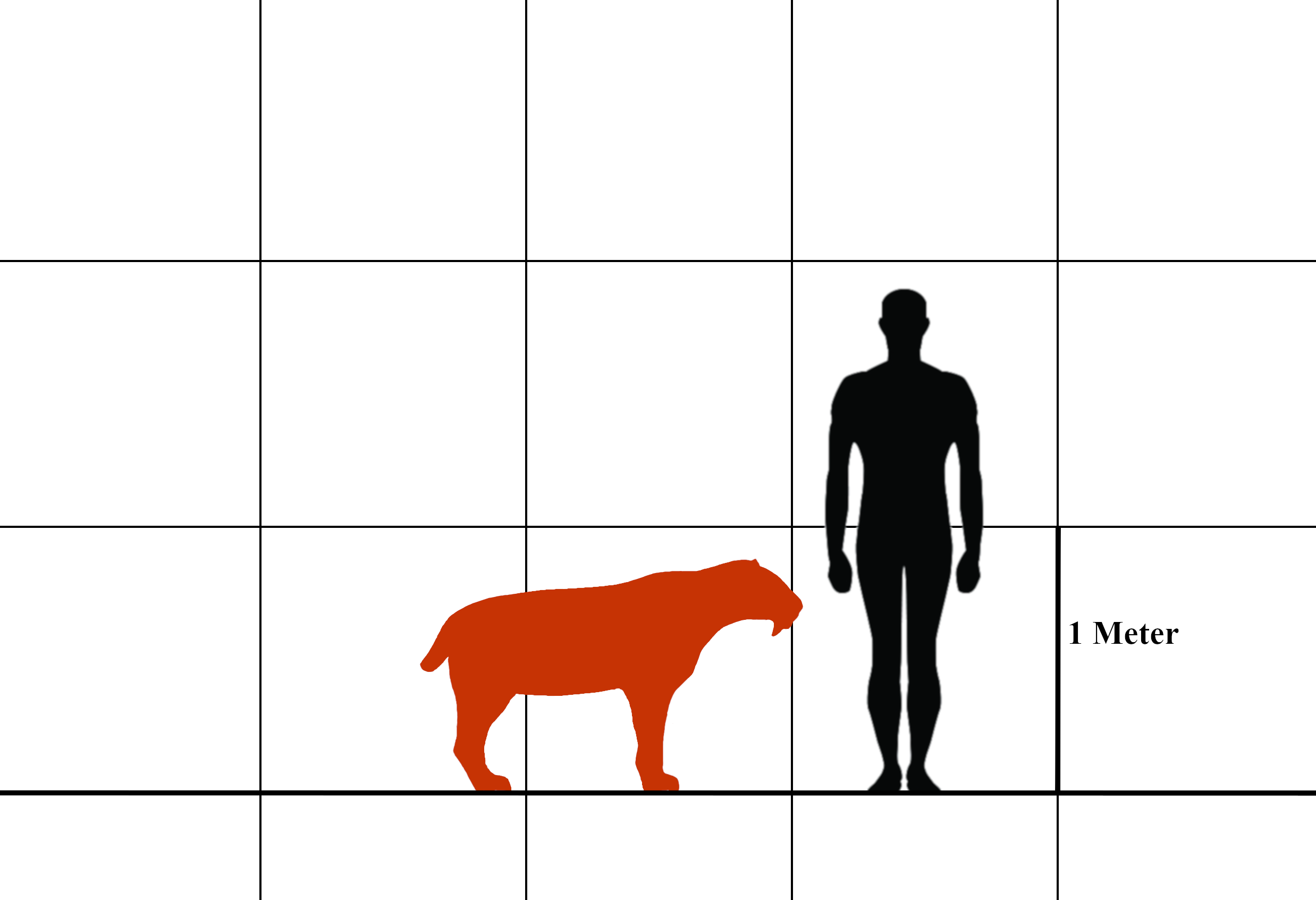 S. gracilis compared to a human of average size (1,80 cm tall)